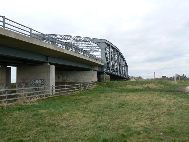 Carlton Bridge, between Snaith, East Riding of Yorkshire and Carlton, North Yorkshire, England.Carlton Bridge is a road bridge which carries the A645 over the River Aire. This is the view from Ferry Lane looking North.